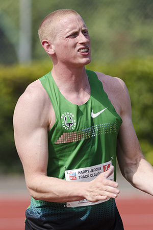 Photo of javelin thrower Cyrus Hostetler.